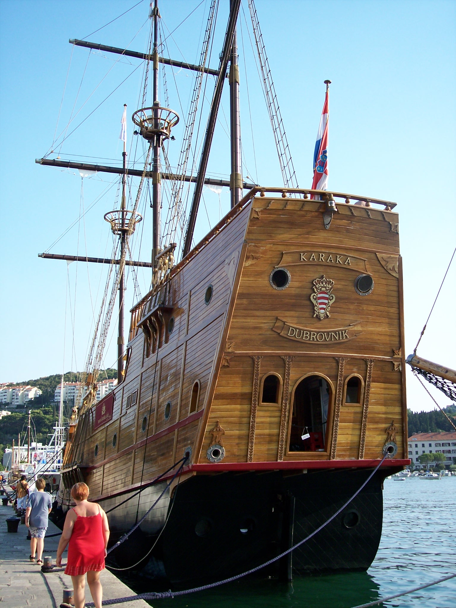 Karaka, carrack in Dubrovnik